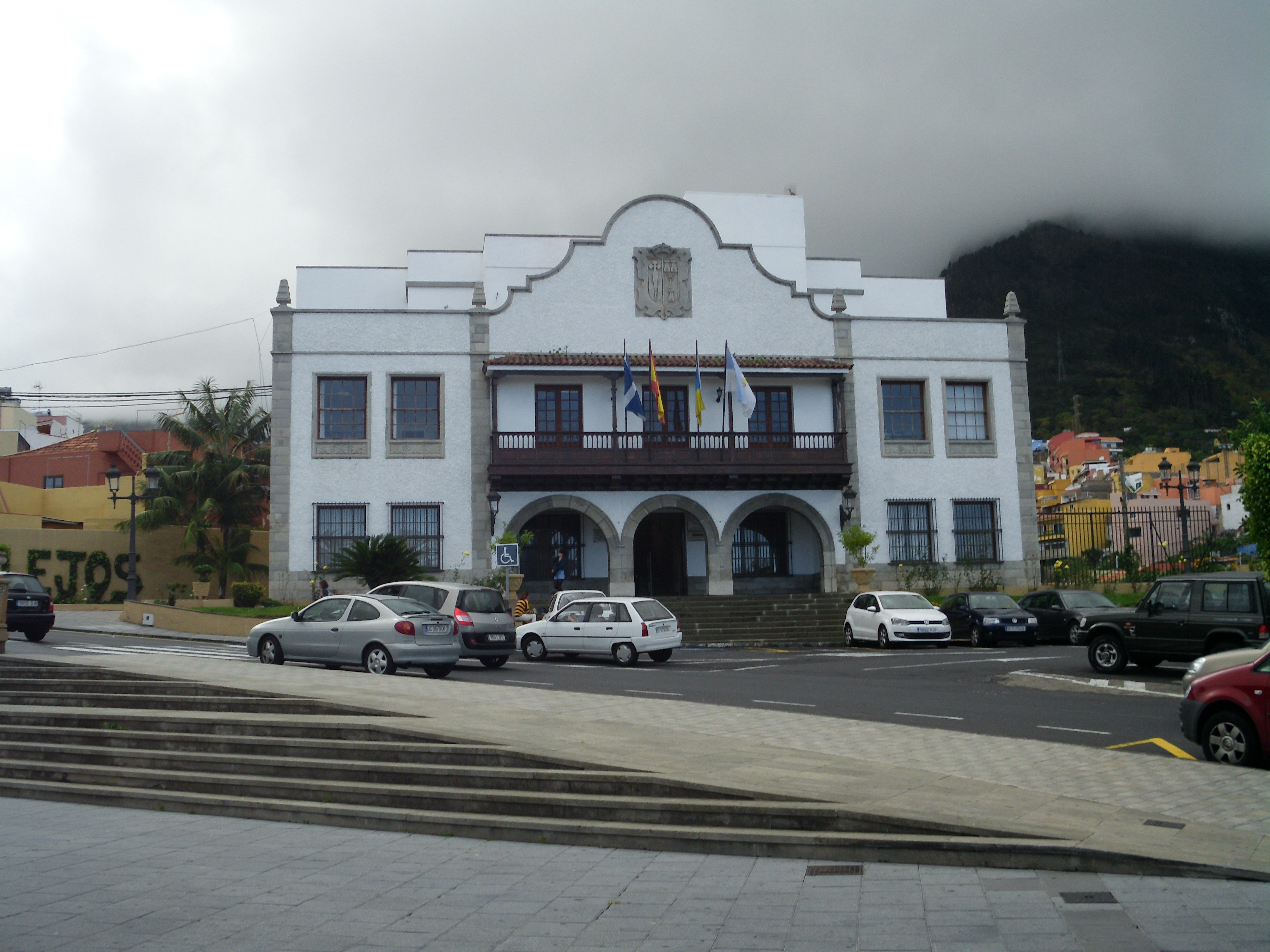 City hall (ayuntamiento) of Los Realejos, Tenerife, located at the upper part of the city (Realejo Alto)